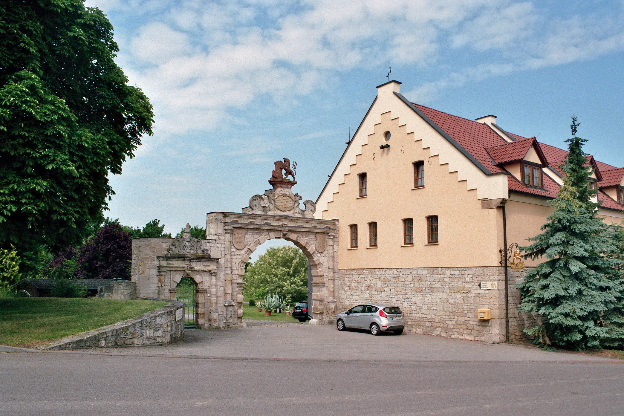 Kreipitzsch Manor, Naumburg on the Saale, Germany